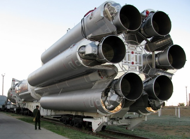 First stage of Proton-M rocket launcher. Launch campaign BADR-5 (Arabsat-5B), 30.05.2010. Without bystanders.